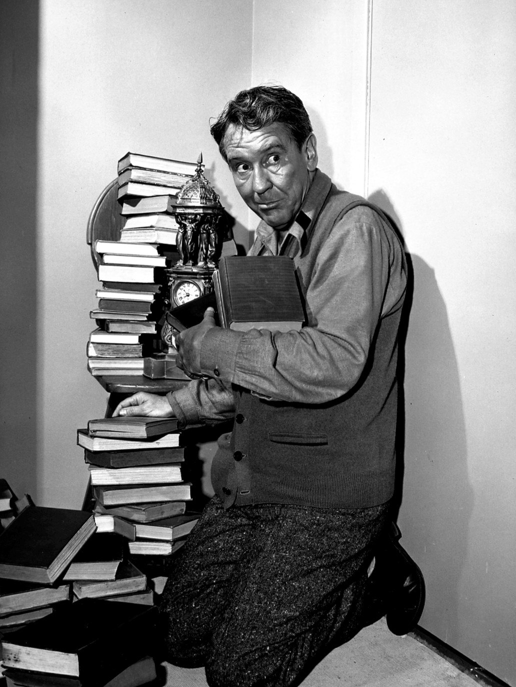 Photo of Burgess Meredith as Romney Wordsworth from the television program The Twilight Zone. The episode is "The Obsolete Man.